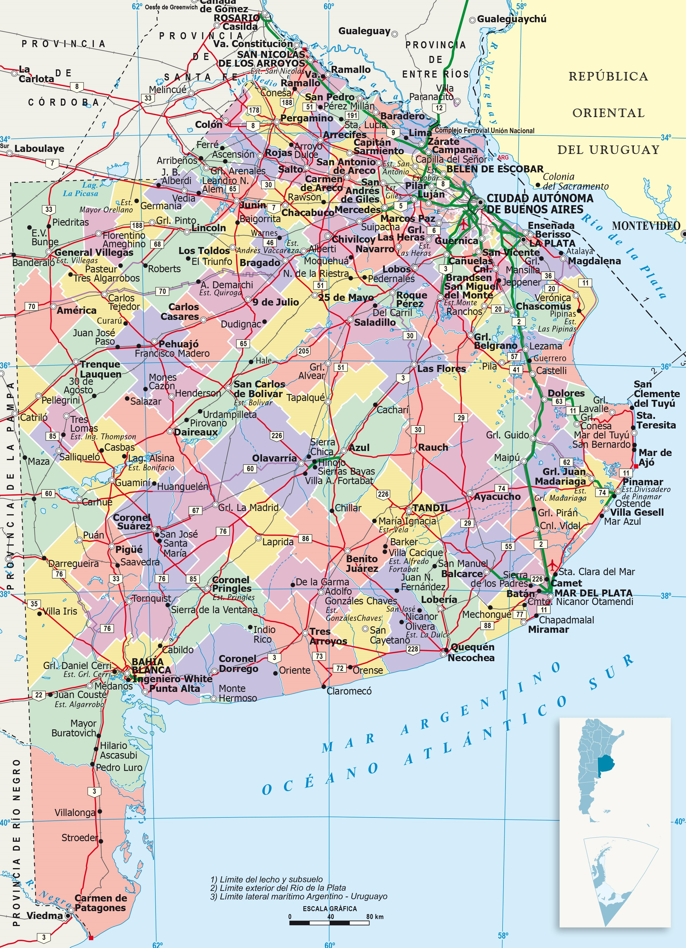 It shows administrative division of Buenos Aires province, its capital (red point) and its boundaries. This version has reference numbers for easier locating of provinces.